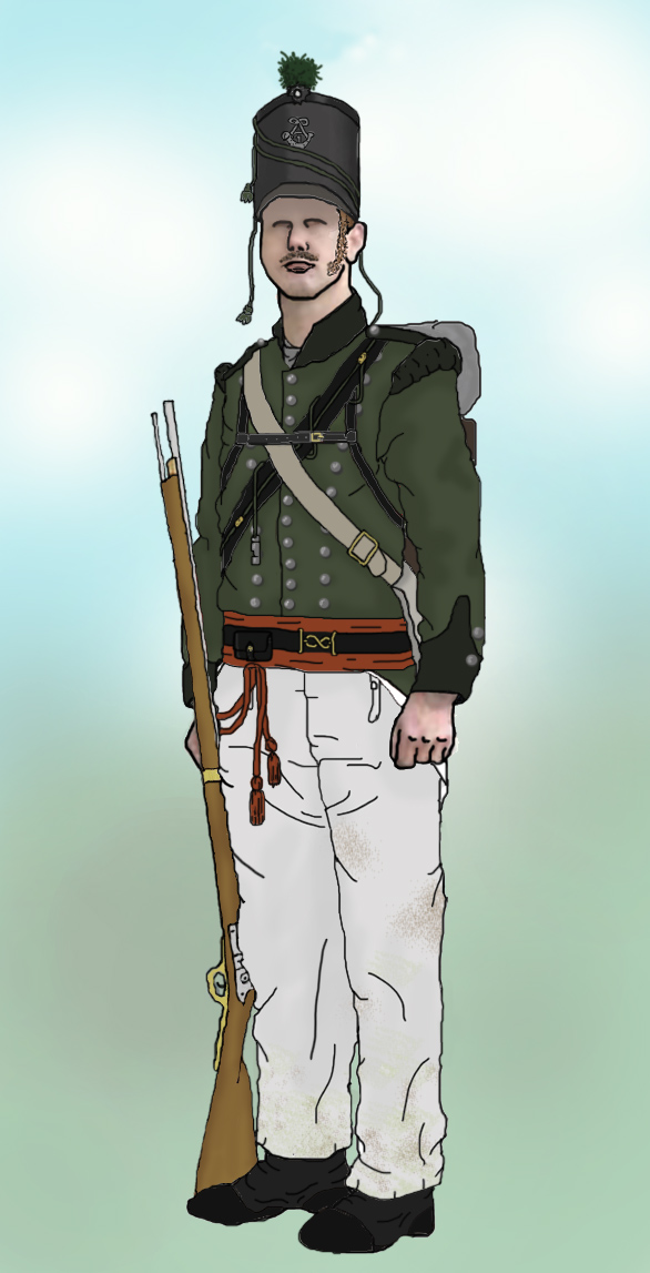 A Sergeant 2nd Btn, Light infantry, King's German Legion, British Army, Waterloo (1815).